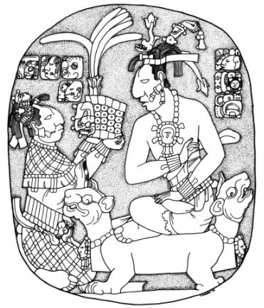 Oval Palace Tablet from House E oft the Palace at Palenque depicting Lady Sak K'uk' presenting a crown to her son K'inich Janaab' Pakal I, on the day he assumed the kingship